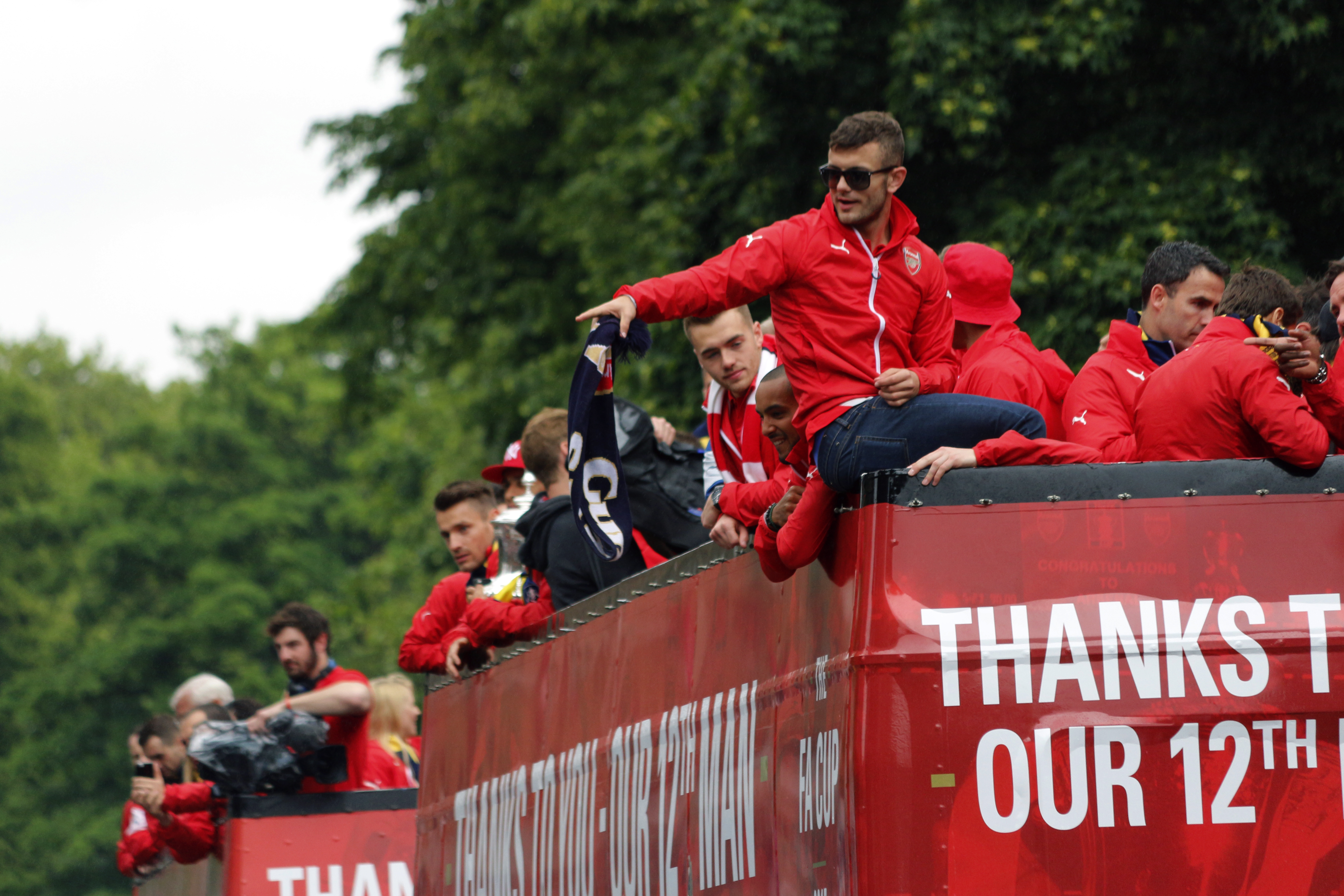 Arsenal FA Cup Winners Parade, 31st May 2015, Islington, London. Jack Wilshere